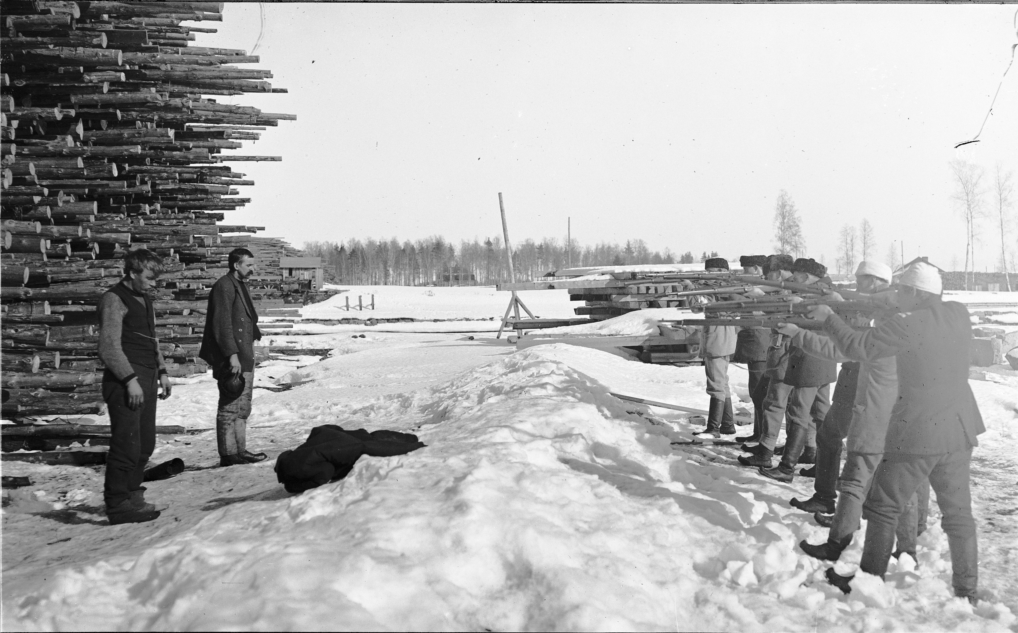 Red rebels are being executed in Varkaus during the insurrection in Finland in 1918.